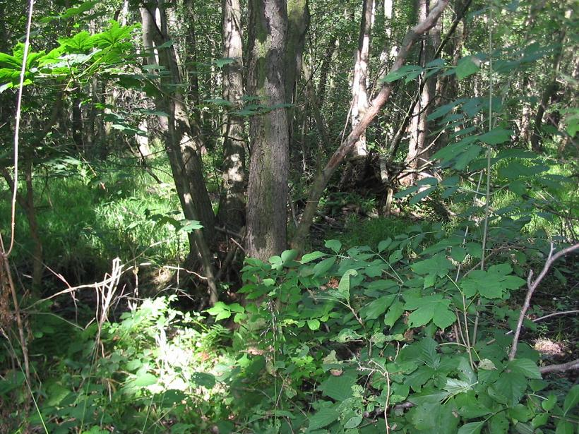 Black alders (Alnus glutinosa) in the nature reserve (german:Naturschutzgebiet) Zarth - a fenny forest, situated in the nature reserve (german:Naturpark) Nuthe Nieplitz at the border between the low Mountain rage Fläming and the glacial valley Baruther Urstromtal. It is part of the town Treuenbrietzen in the district Potsdam Mittelmark, state Brandenburg, Germany.